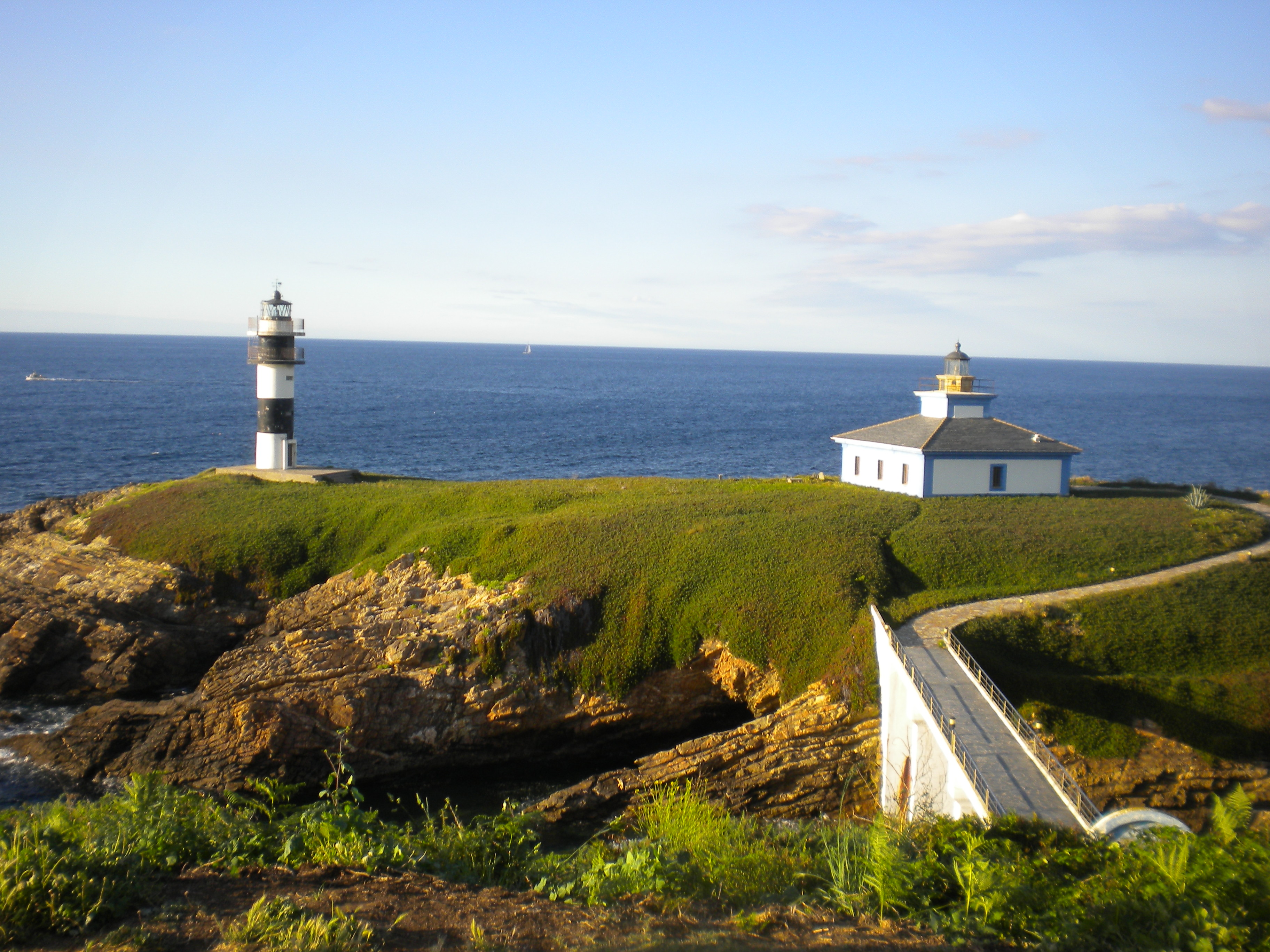 Island of Pancha, Ribadeo, Spain.